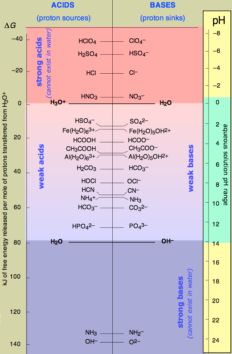 Proton free energy diagram of common acids and bases